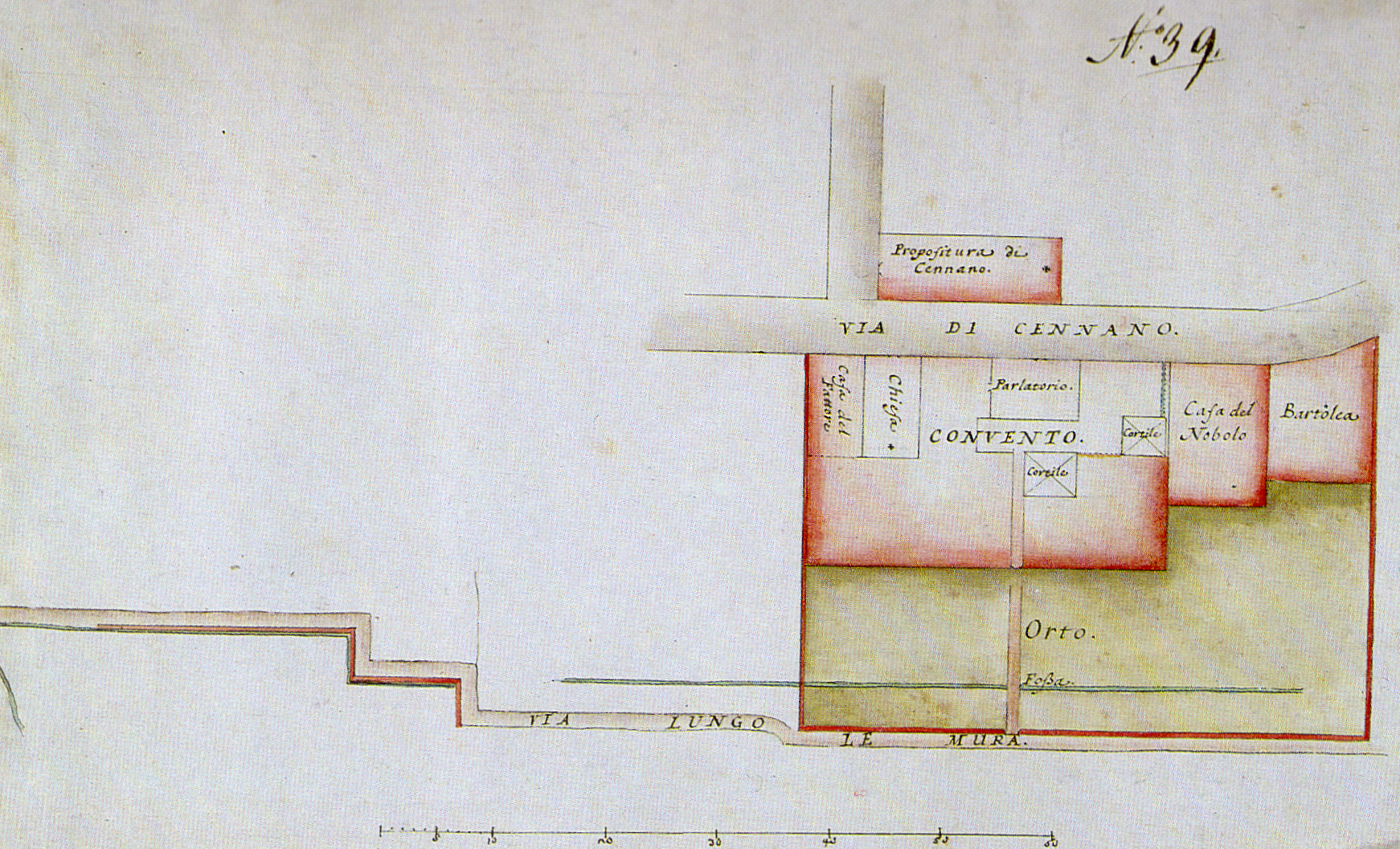 The map of Santa Maria del Latte Monastery in via Cennano at Montevarchi